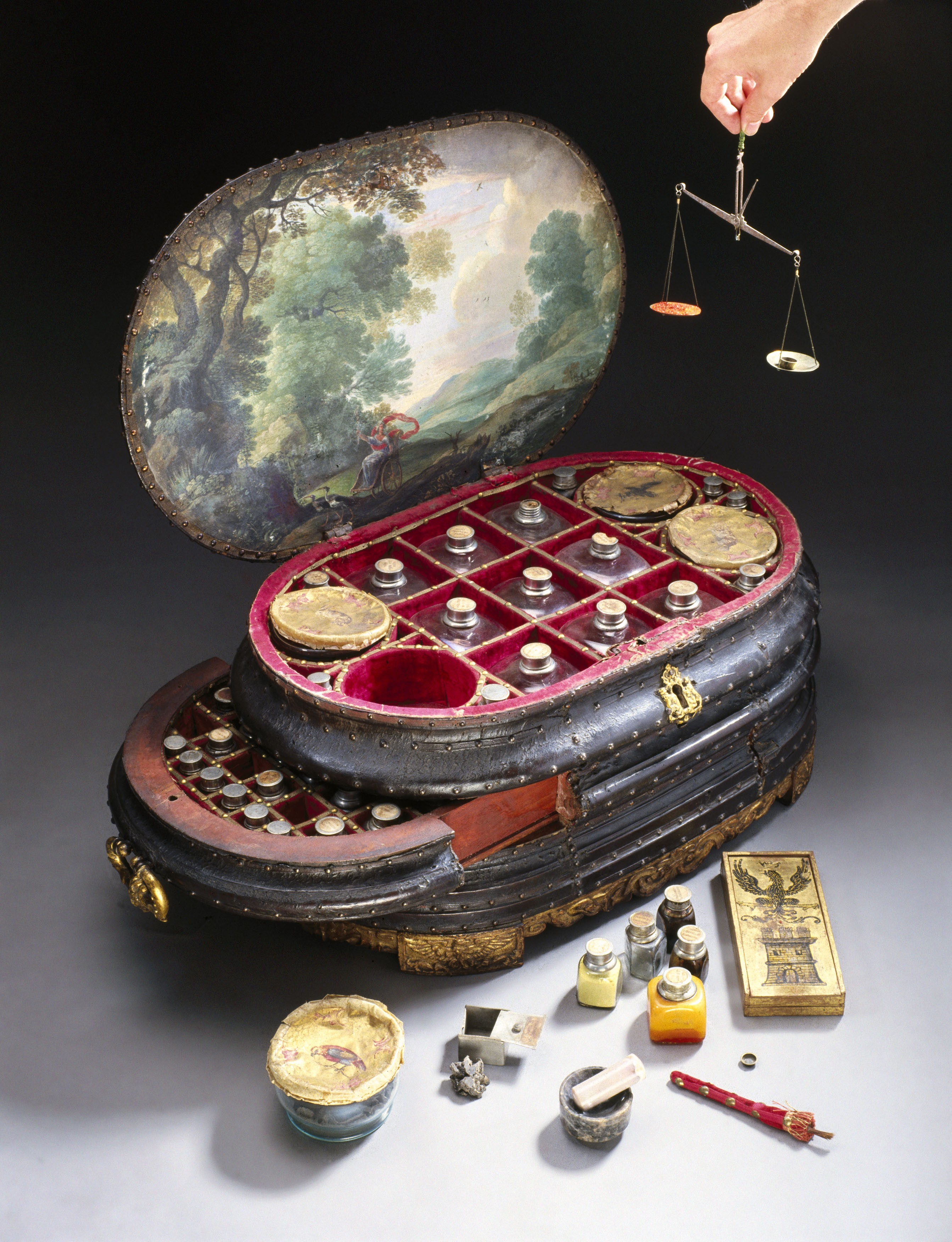 Genoese medicine chest, 1562-1566 This magnificent and unique medicine chest was made for Vincenzo Giustiniani (d. 1570), the last Genoese governor of the island of Chios in the eastern Aegean Sea. He ruled Chios from 1562 until the Turks expelled the Genoese in 1566 after an occupation of some two hundred years. On a box from the middle drawer is painted the symbol of Chios – a black eagle above a three-towered castle. The chest contains 126 bottles and pots for drugs, some of which still have their original contents. These include rhubarb powder, ointment for worms, juniper water and mustard oil. The chest measures nearly a metre long. The painting on the inside of the lid is a later addition. It remained in the Giustiniani family until it was bought by Henry Wellcome in 1924. Medical Photographic Library